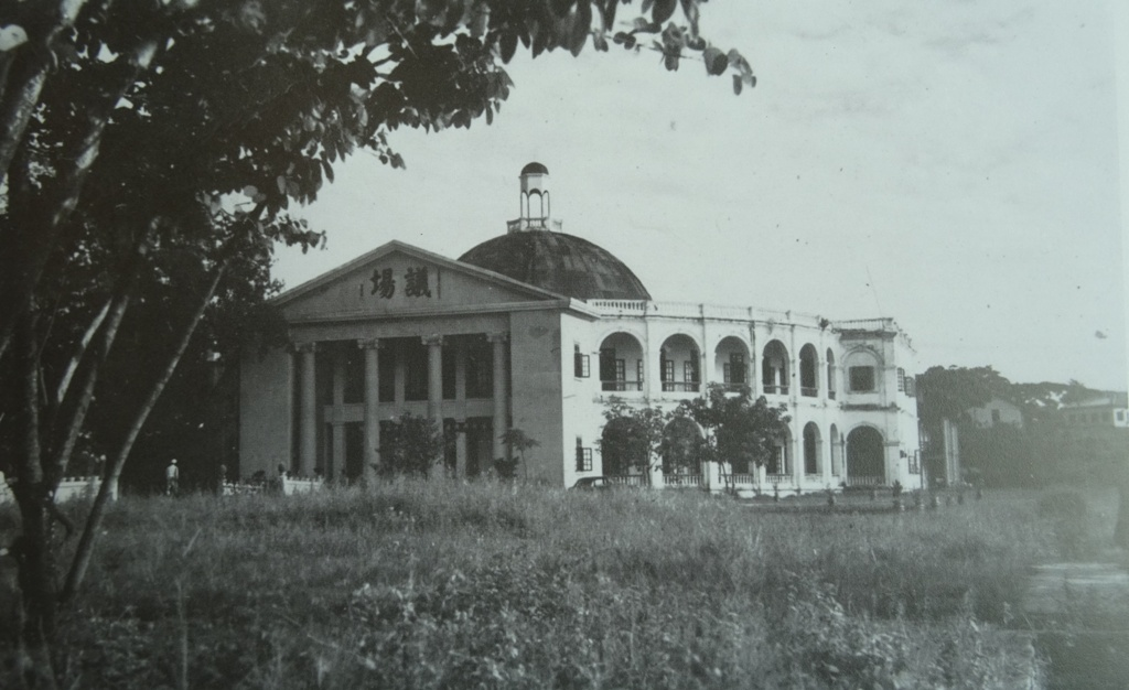 Kwangtung Advisory Council in Canton, Kwangtung 粵語: 廣東諮議局議場